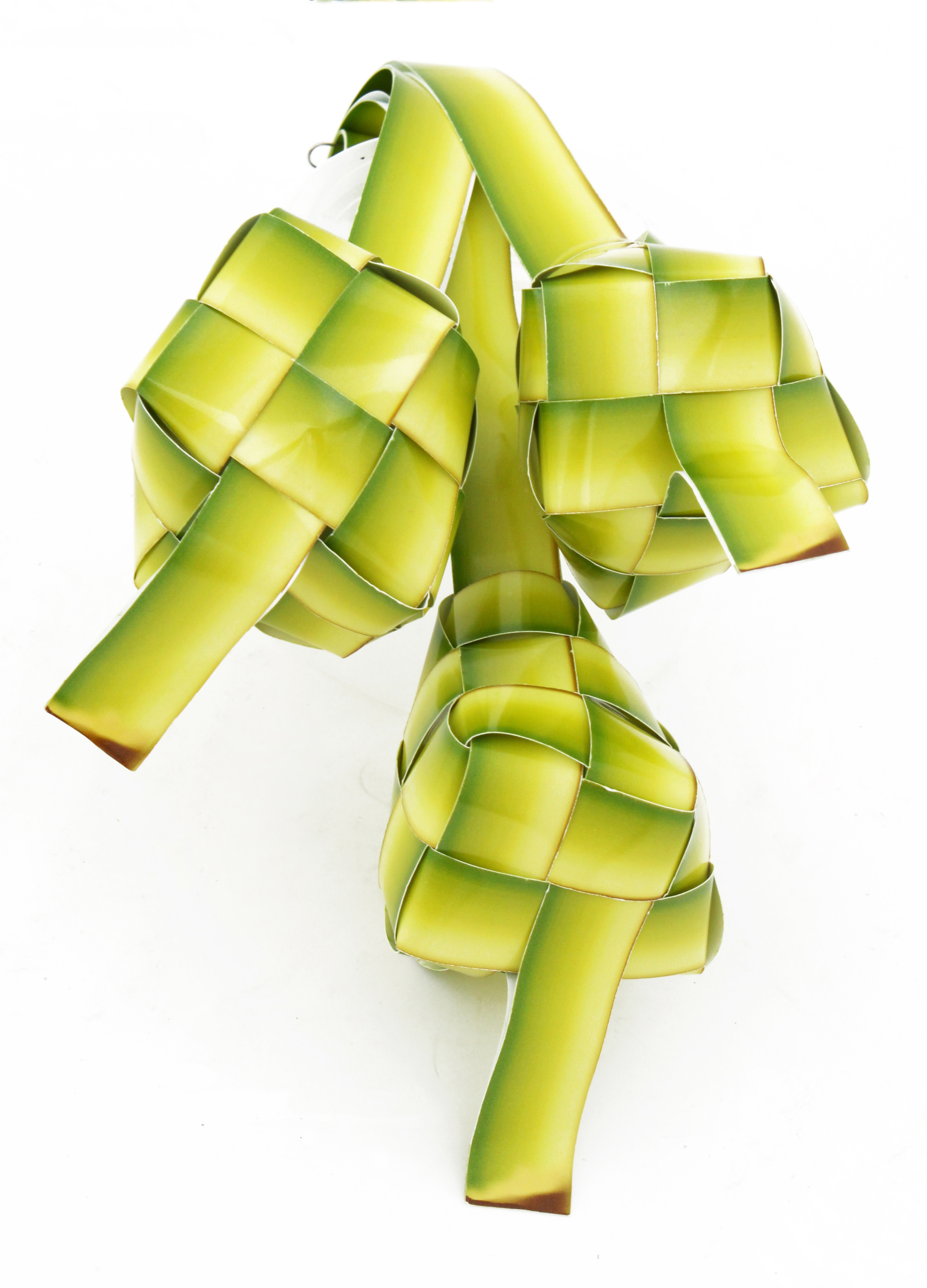 Ketupat, a type of rice dumpling wrapped in palm fronds, which is made in Brunei, Indonesia, Malaysia, the Philippines (where it is known by the name pusô in Cebuano, bugnóy in Hiligaynon, patupat in Kapampangan, and ta’mu in Tausug), and Singapore.